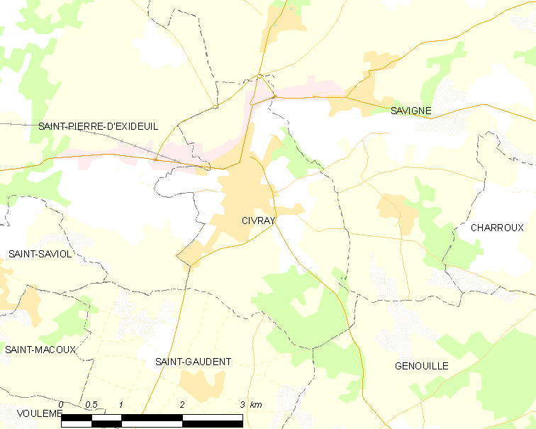 Map of French municipality Civray